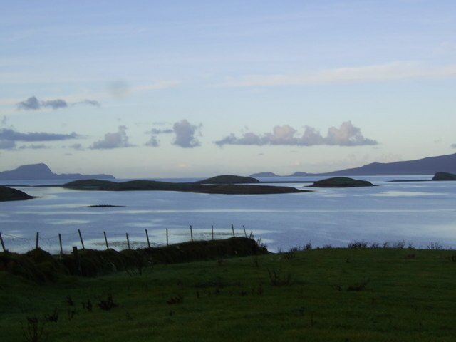 Inishnakillew, Co. Mayo View west from the island of Inishnakillew over the island drumlins in Clew Bay, with Clare Island in the distance.